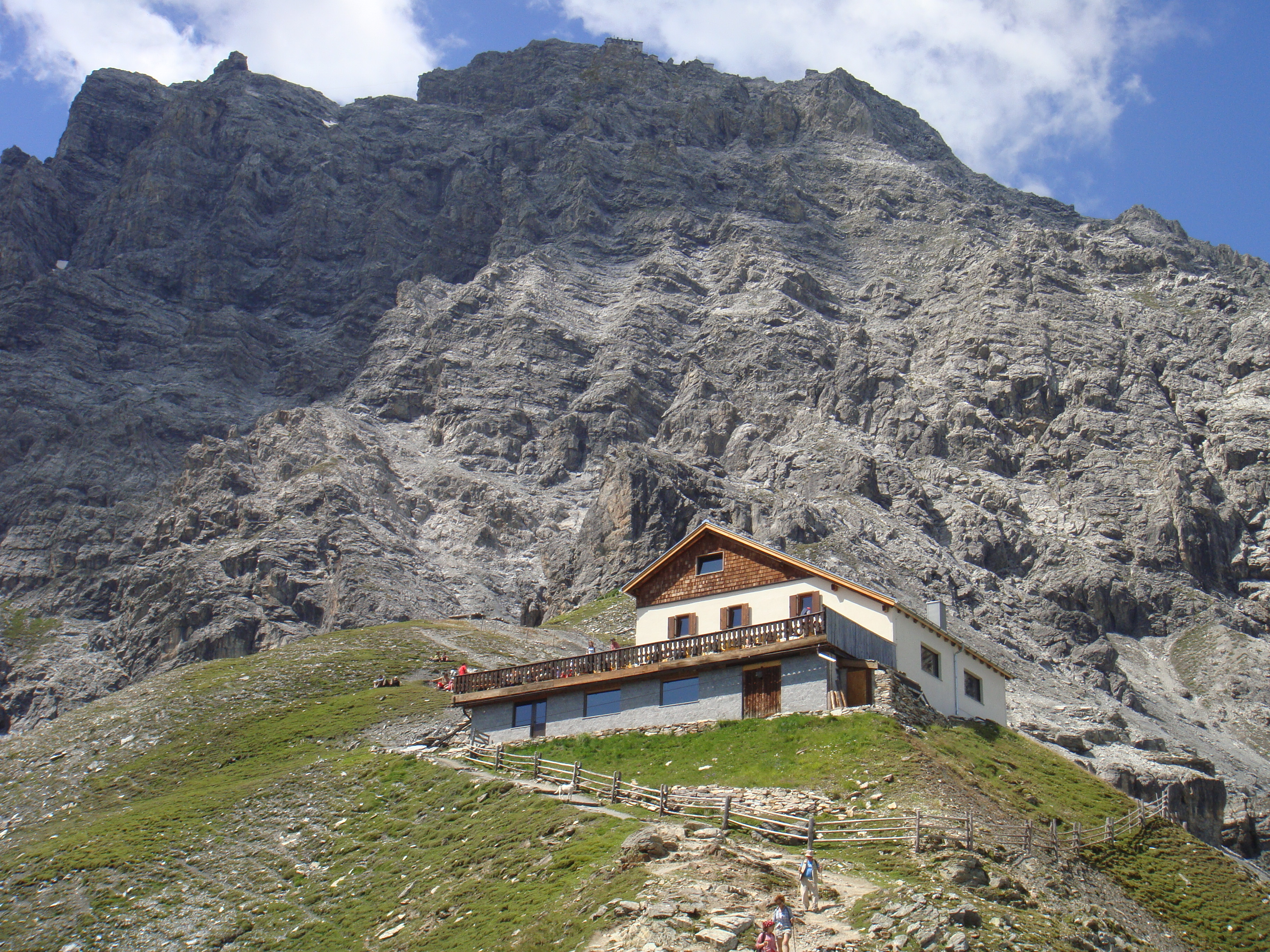 Tabaretta Hut (2556 m), Solda, Italy.